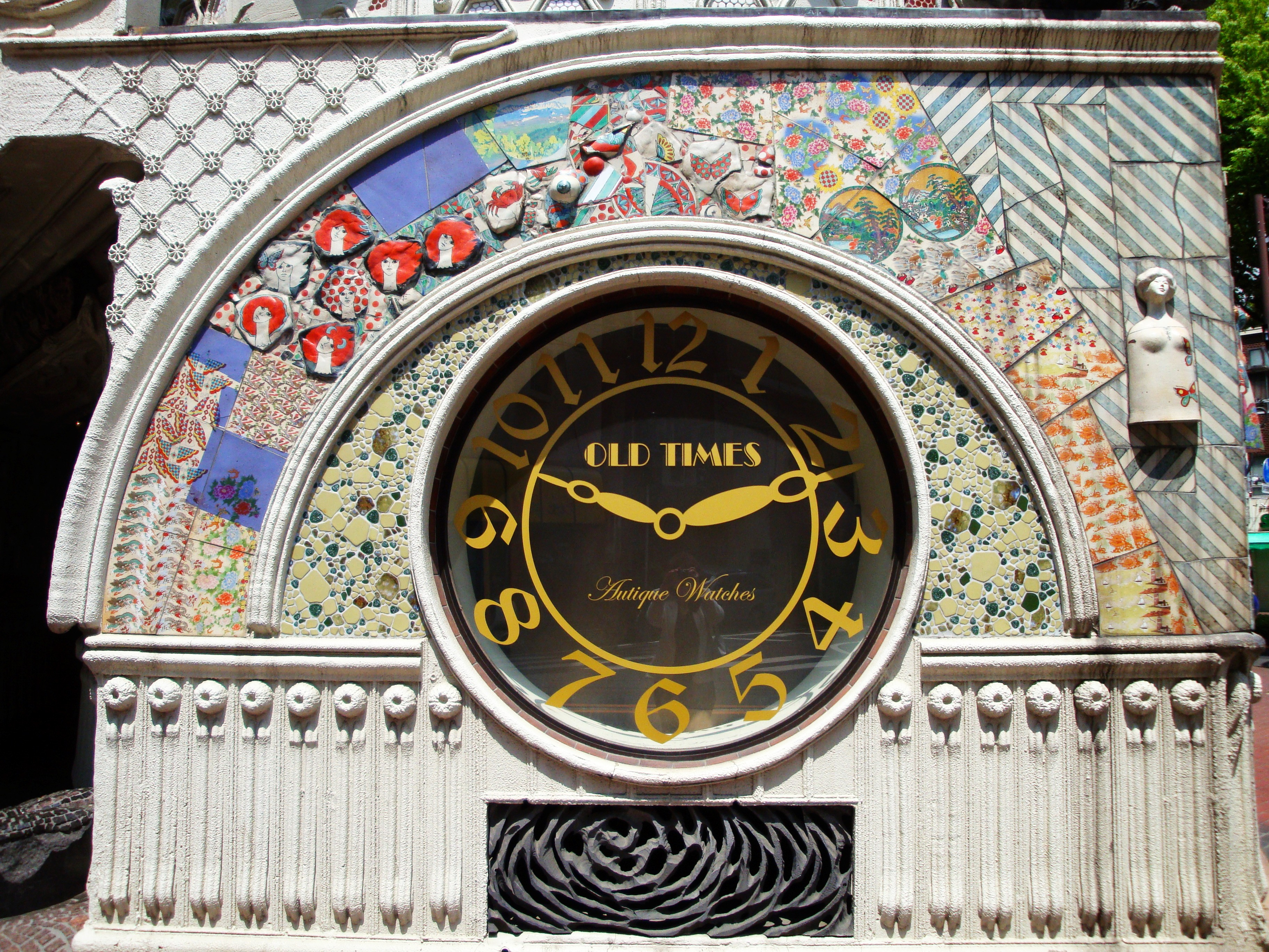 "Waseda El Dorado" Building by Von Jour Caux (Toshiro Tanaka), near the Waseda University Campus, Shinjuku, Tokyo